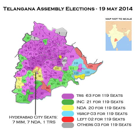 Telangana Legislative Assembly election result 2014